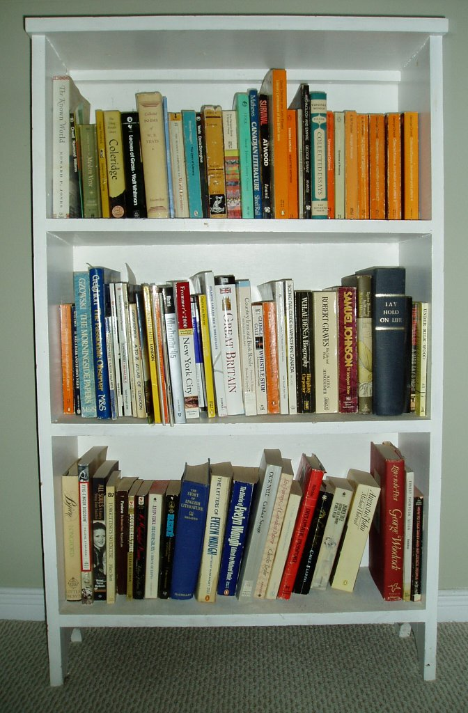 A bookcase filled with books. Nedersaksies: Een boekenkaste.